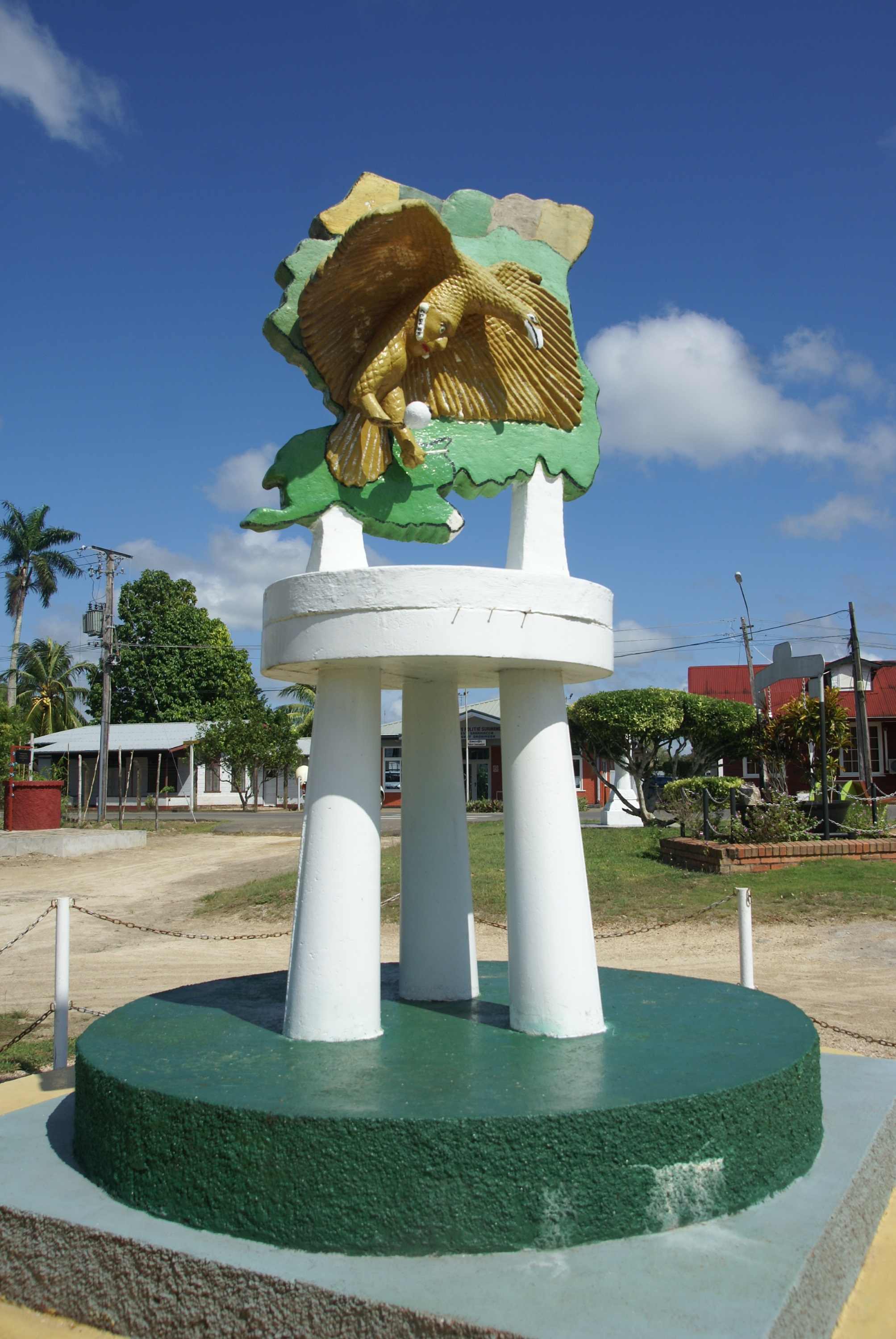 Inheems Monument, Groningen, Surinam. 2008.